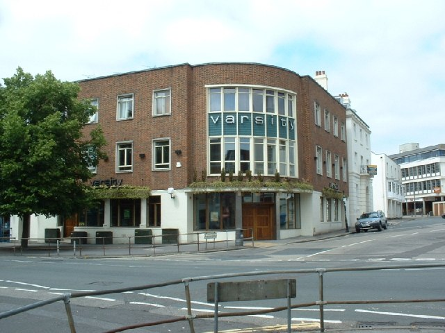 Varsity, Southampton. An interesting 1950s style building, Varsity is a trendy bar located in London Road.